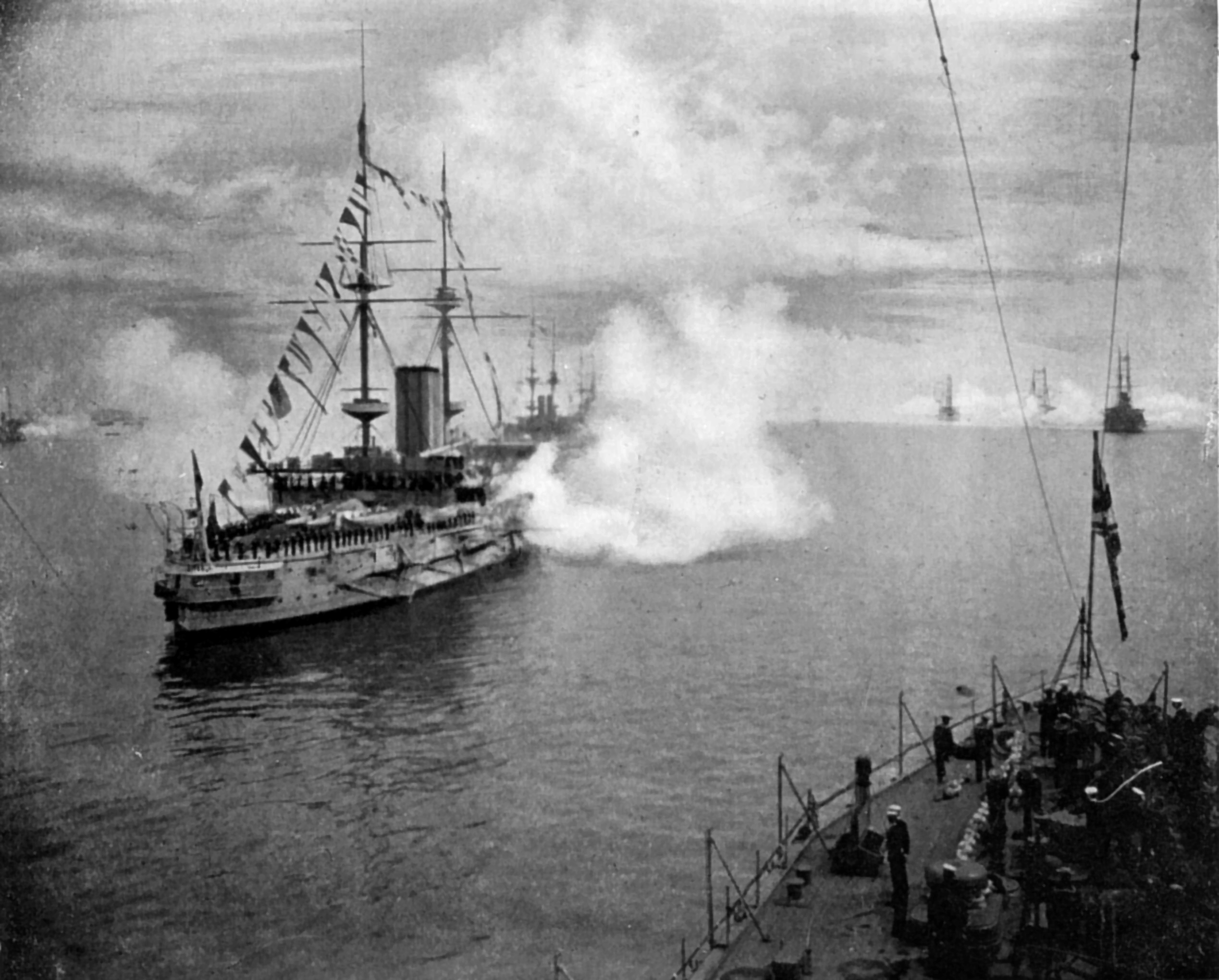 Royal Navy saluting HMS Dreadnought and royal family, probably during naval review